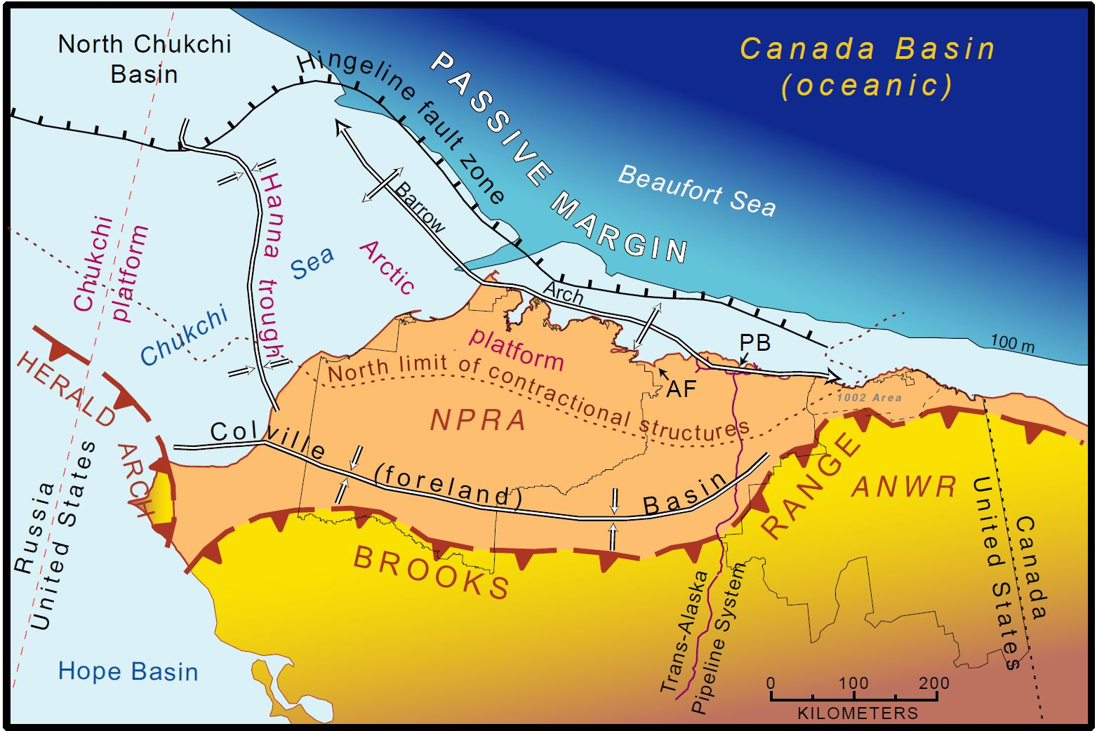 Alaska North Slope basin map from U.S. Geological Survey Professional Paper 1732–A